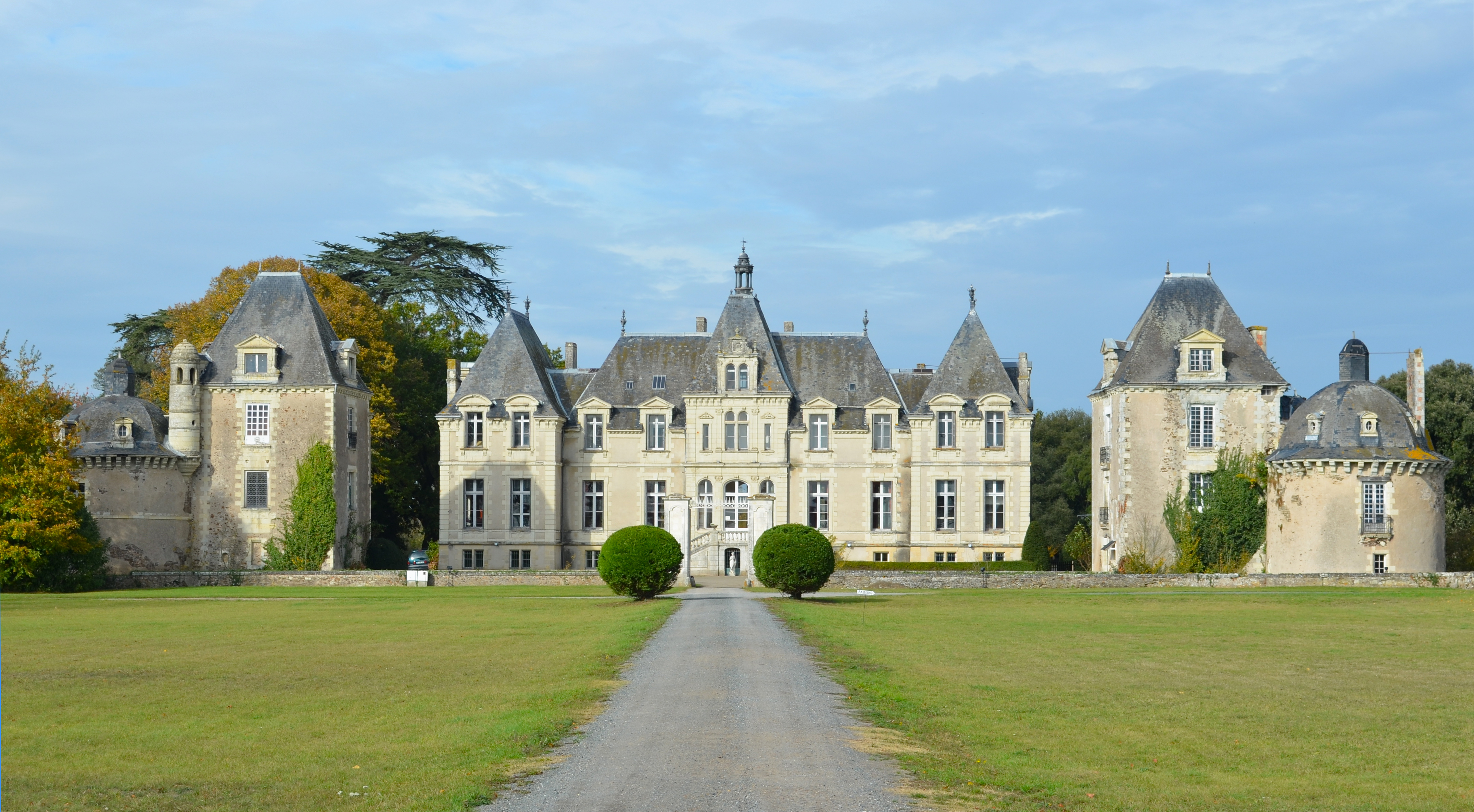 The castle of Plessis-de-Vair in Anetz (Loire-Atlantique, Pays de la Loire, France).